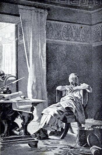 Source: ; Asimov, I. Biographical Encyclopedia of Science and Technology; the Lives and Achievements of 1510 Great Scientists from Ancient Times to the Present, Chronologically Arranged, rev. ed. New York: NY: Avon, 1976. The original painting is probably by Nicolò Barabino (1832-1891), now located in the Modern Art Gallery of the Revoltella Museum in Trieste, Italy [1] Ð¡Ð»Ð¸ÐºÐ°:Archimedes.jpg